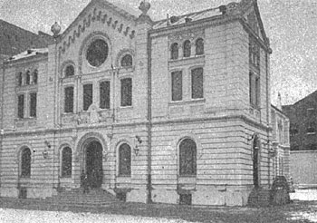 Zalman and Ryfka Nożyk Synagogue, Warsaw, Twarda Street